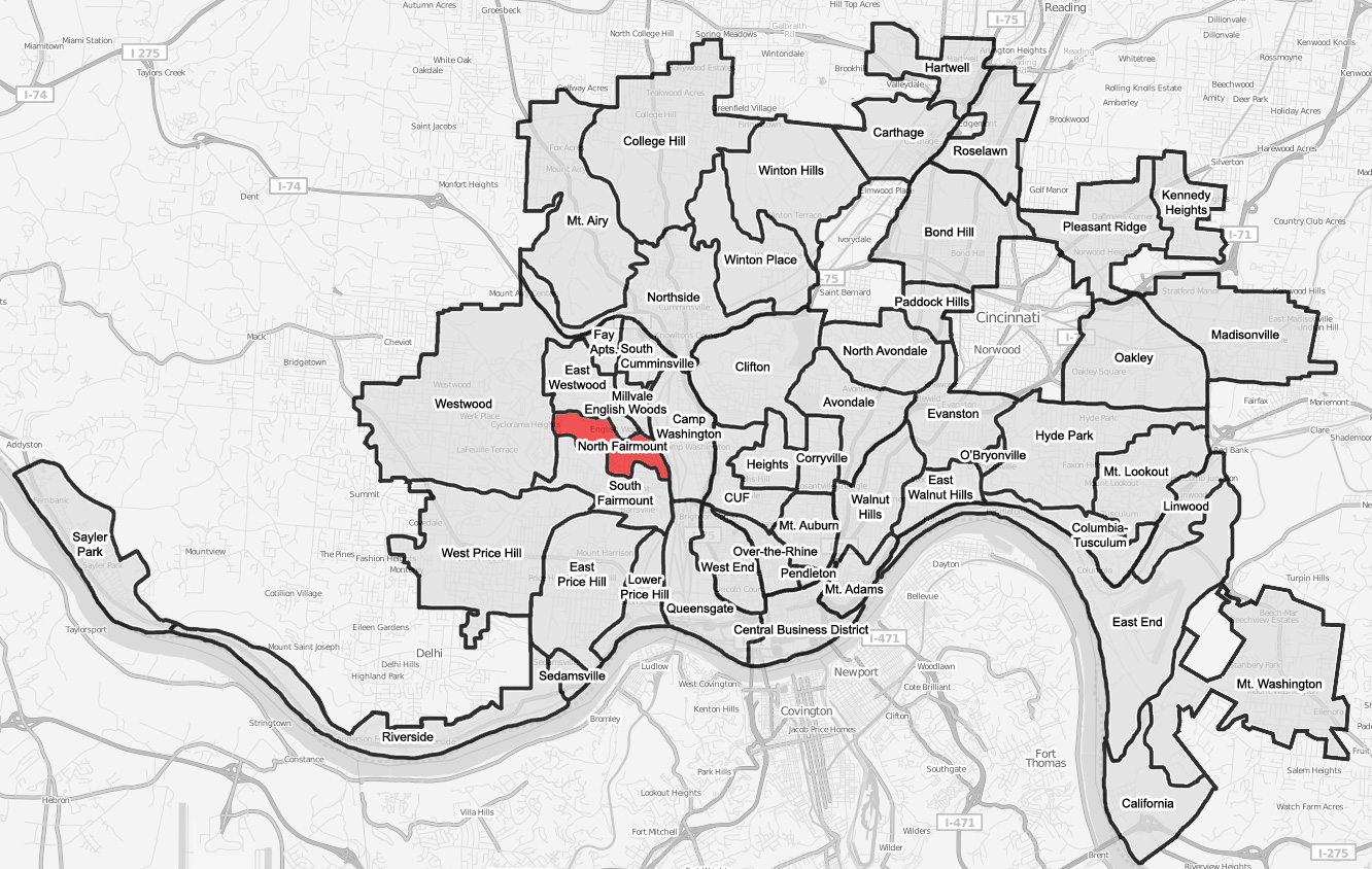 A map of the neighborhood of North Fairmount within Cincinnati, Ohio. Neighborhood lines are based on information from This street map is derived from a free map.